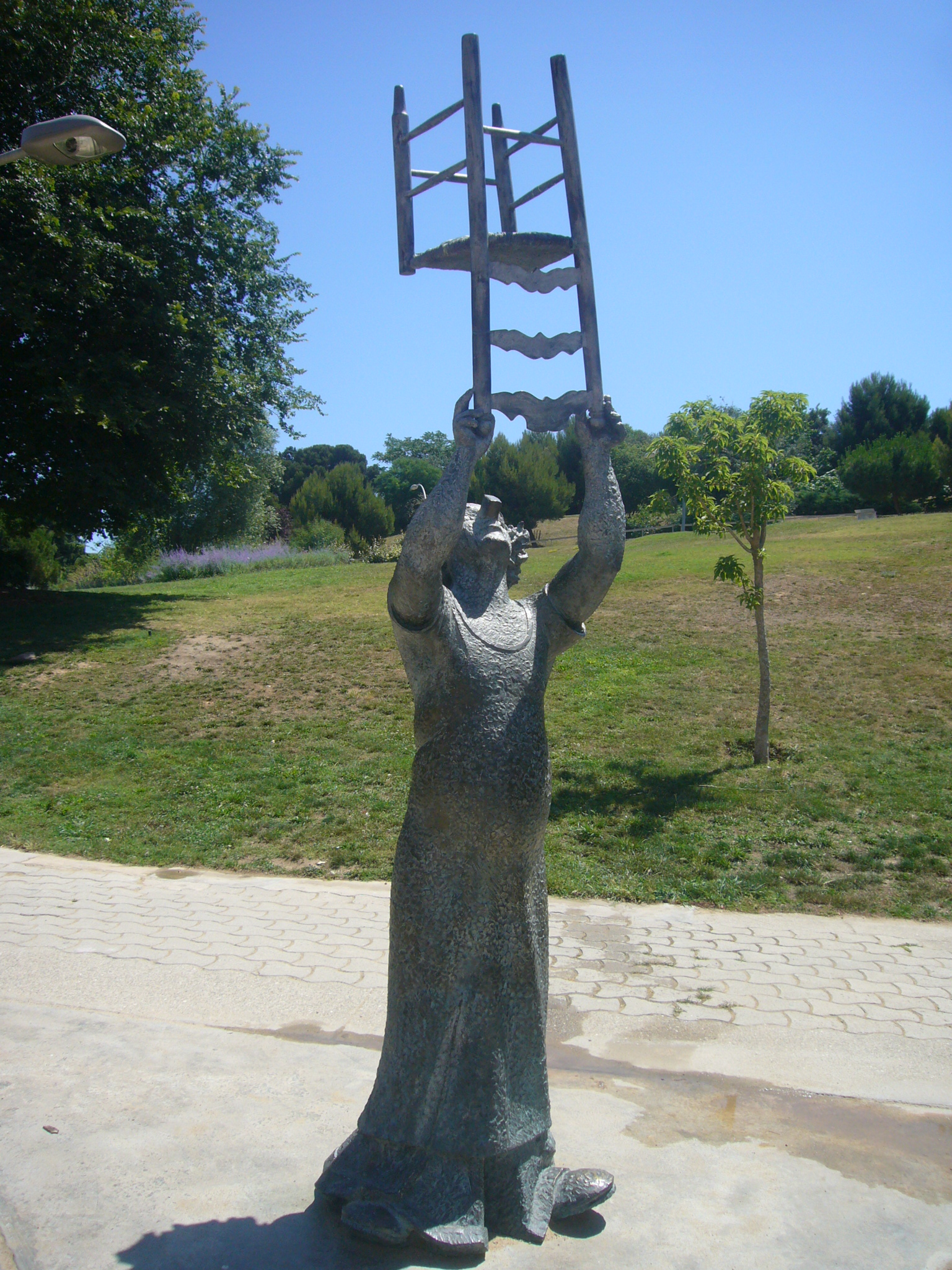 "El Pallasso" — by Joaquim Ros i Sabaté - (1972). Gardens of Joan Brossa, in Barcelona.